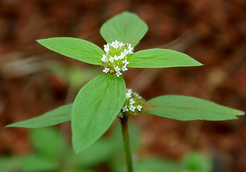 Spermacoce ocymoides (syn. Bigelovia laevicaulis, Borreria laevicaulis, B. ocymoides, B. ramisparsa, S. prostrata)- purple-leaved button weed- at Ananthagiri Hills, in Rangareddy district of Andhra Pradesh, India.